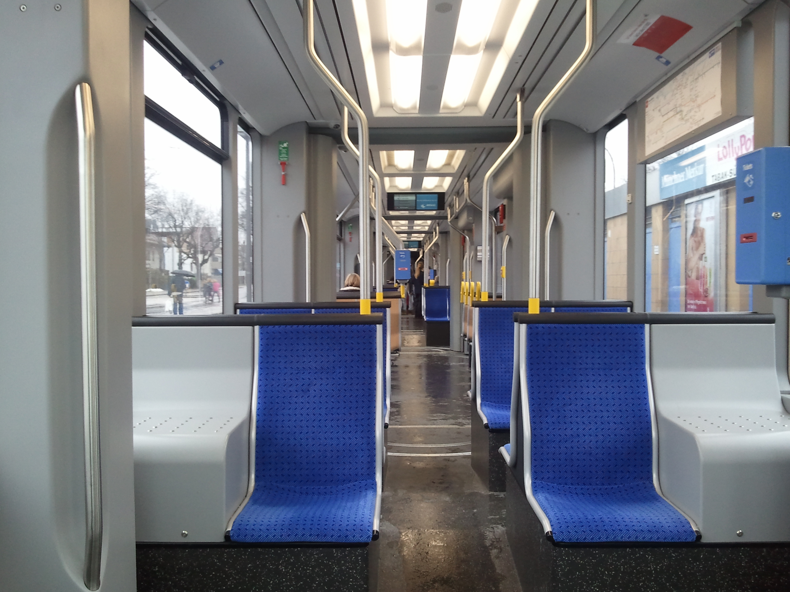 Inside a Variobahn, whole View